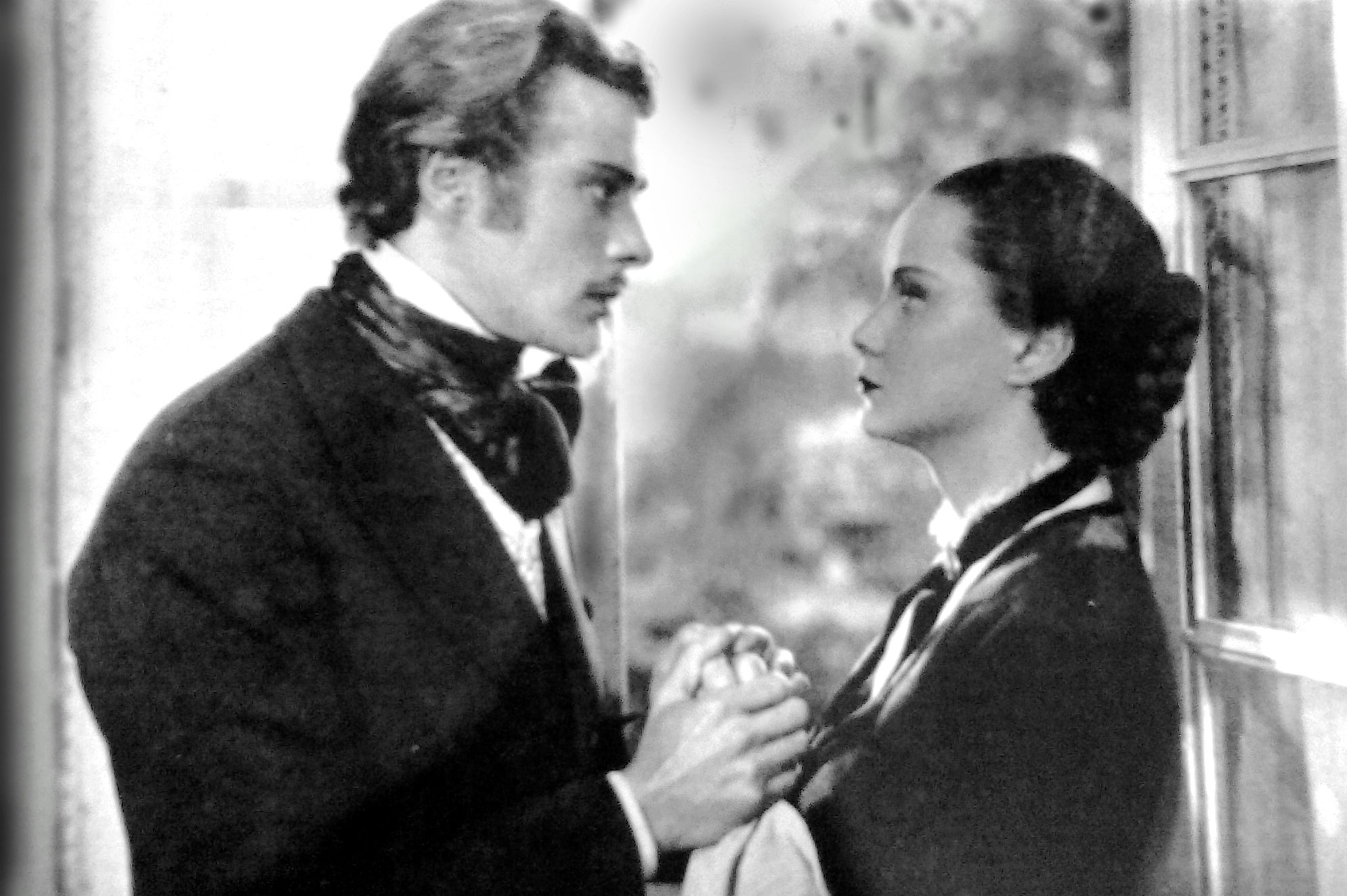 Massimo Serato ed Alida Valli in "Piccolo mondo antico" (Soldati, 1941)